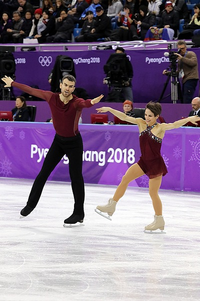 M. Duhamel and E. Radford at the 2018 Winter Olympics